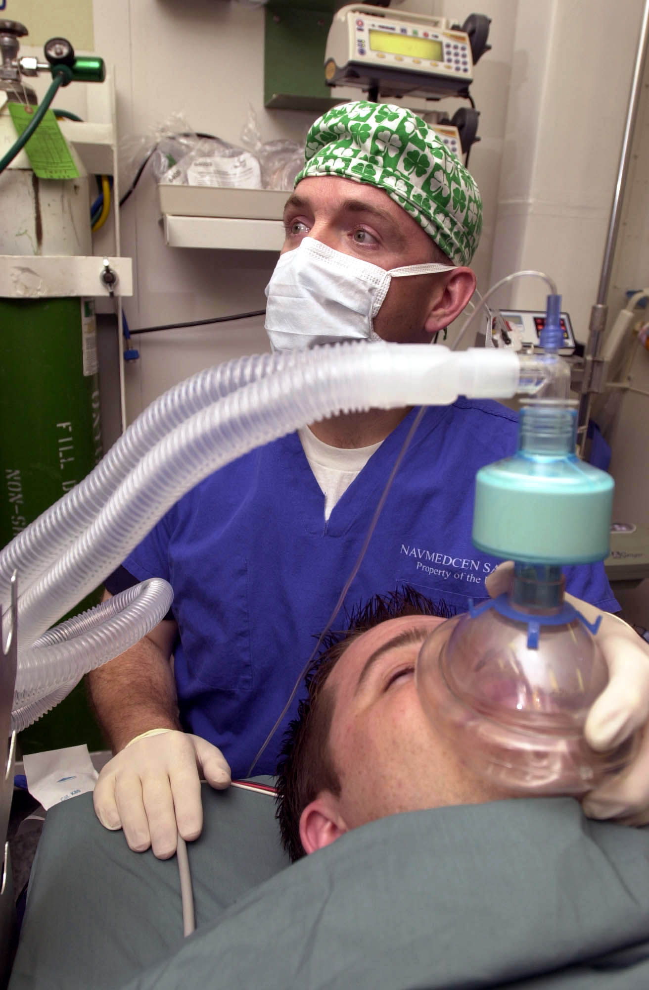 Central Command Area of Responsibility (May 13, 2003) -- Lt. Cmdr. Joe Casey, Ship’s Anesthetist, trains on anesthetic procedures with Hospital Corpsman 3rd Class Eric Wichman aboard USS Nimitz (CVN 68). The Nimitz Carrier Strike Group and Carrier Air Wing Eleven (CVW-11) are deployed in support of Operation Iraqi Freedom, the multi-national coalition effort to liberate the Iraqi people, eliminate Iraq’s weapons of mass destruction, and end the regime of Saddam Hussein. U.S. Navy photo by Photographer’s Mate Airman Timothy F. Sosa. (RELEASED)